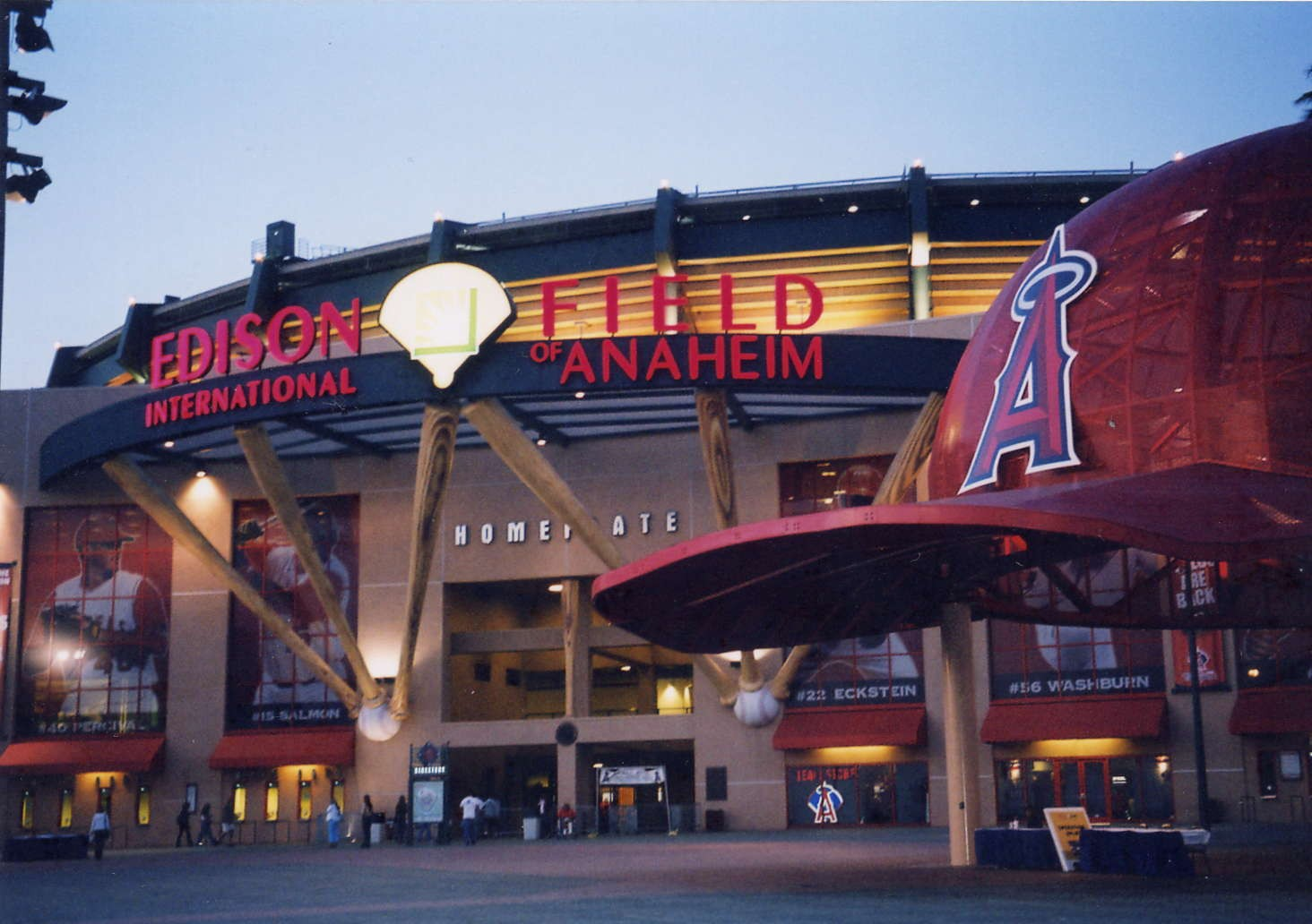 Angel Stadium of Anaheim